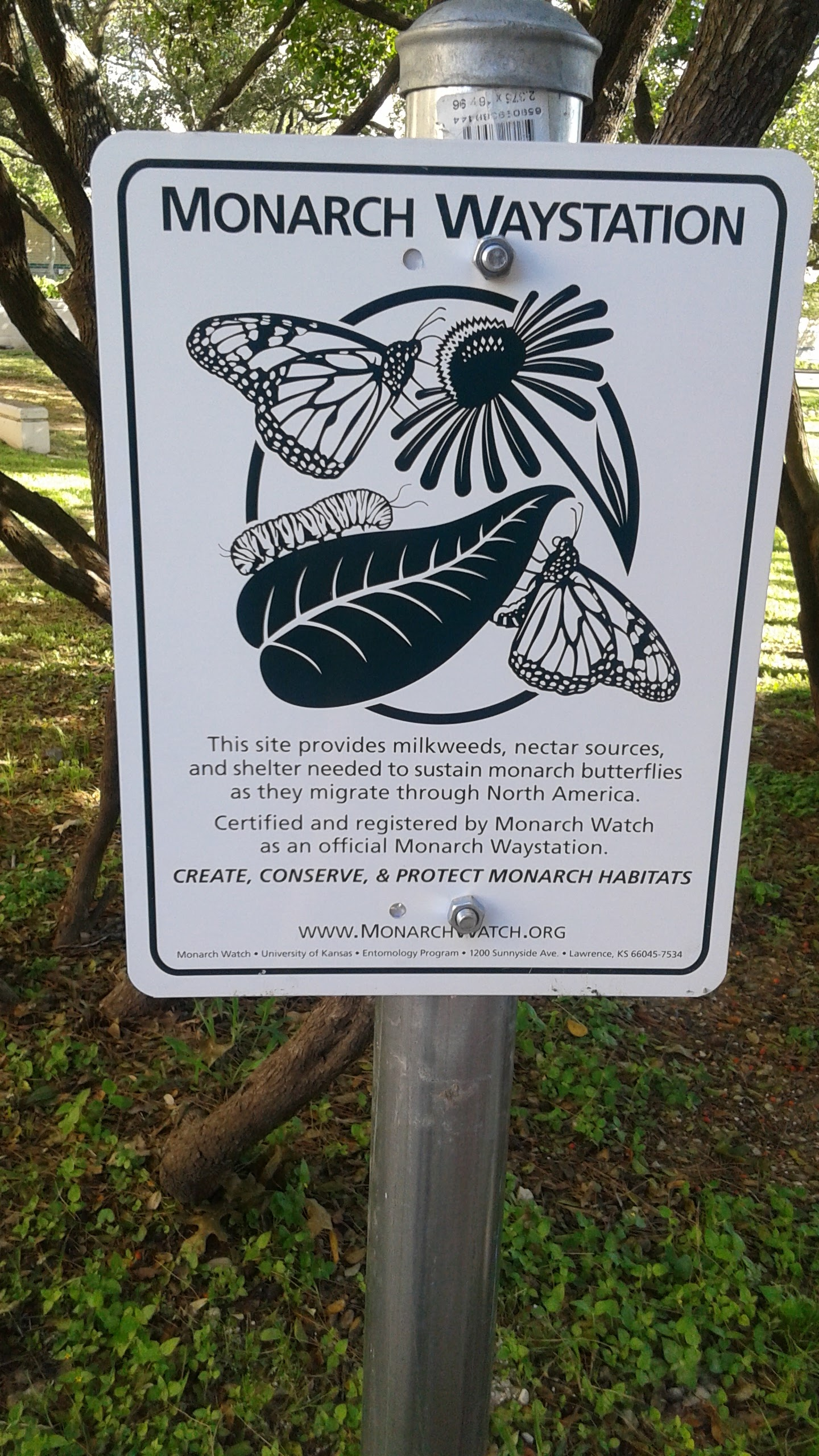 Designated Monarch Waystation sign created by Monarch Watch and placed at Austin Community College in Austin, Texas.